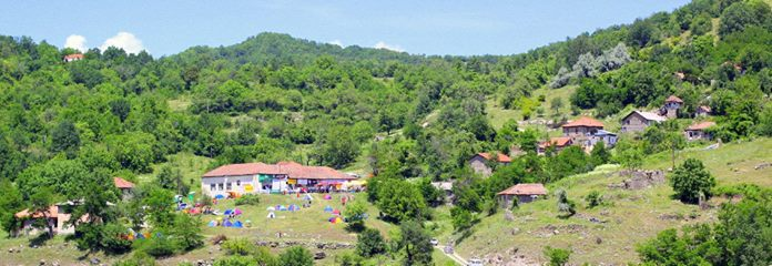 Camp of the outdoor fesrtival Alshar